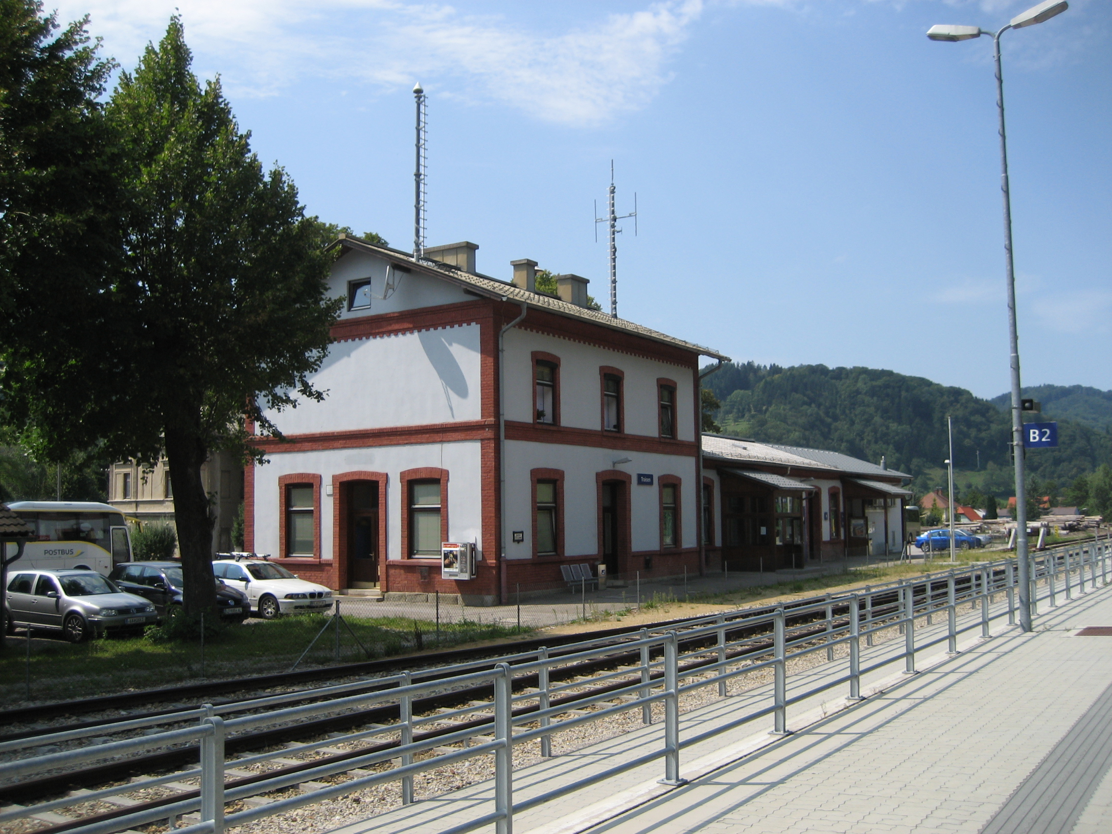 Train station Traisen in Lower Austria